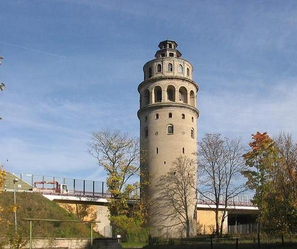 Water tower in Niederlehme. Landmark of the village and of Berlins circular Autobahn. Built in 1902 out of sand-lime brick, modelled on the Galata Tower in Istanbul. Niederlehme is a part of the town Königs Wusterhausen in the district Dahme-Spreewald, state Brandenburg, Germany.